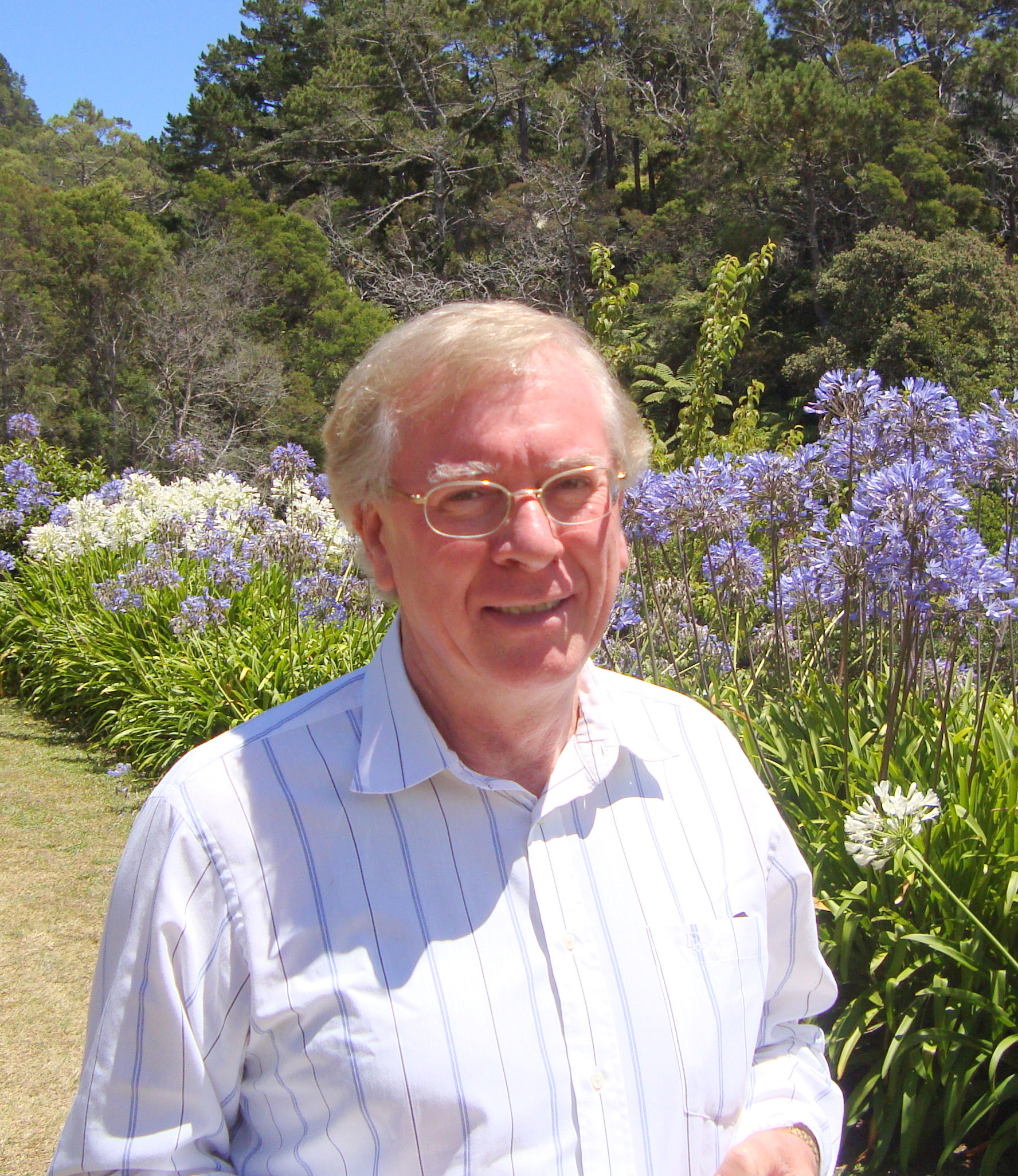 Mathematics professor at University of Texas at Austin Cameron Gordon during the 2010 NZIMA Workshop on Topological Quantum Field Theory and Knot Homology Theory in Hahei, New Zealand.